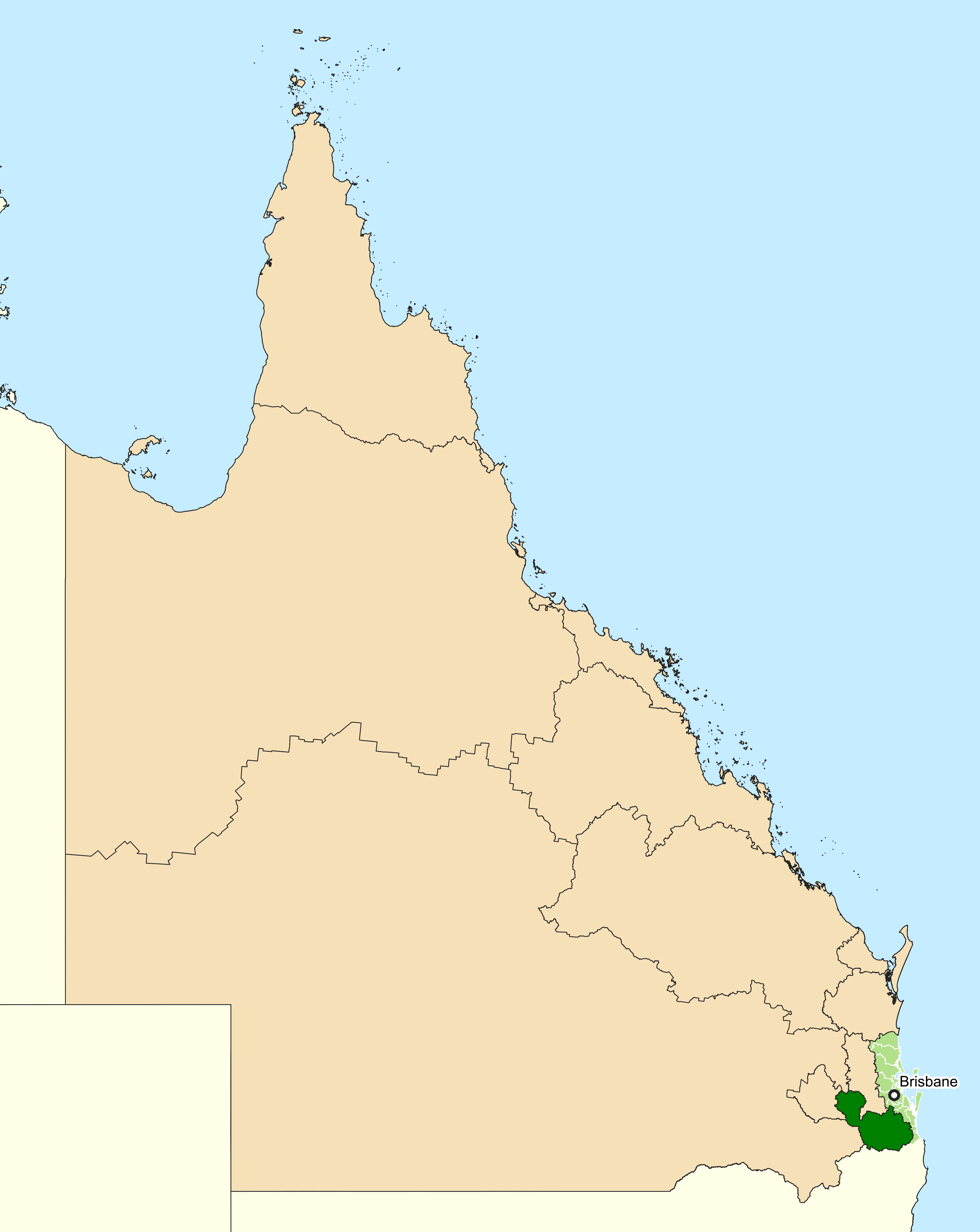 Location of the Australian federal electoral division of Wright (dark green) in Queensland as of the 2019 Australian federal election. Incorporates or developed using Administrative Boundaries ©PSMA Australia Limited licensed by the Commonwealth of Australia under Creative Commons Attribution 4.0 International licence (CC BY 4.0).